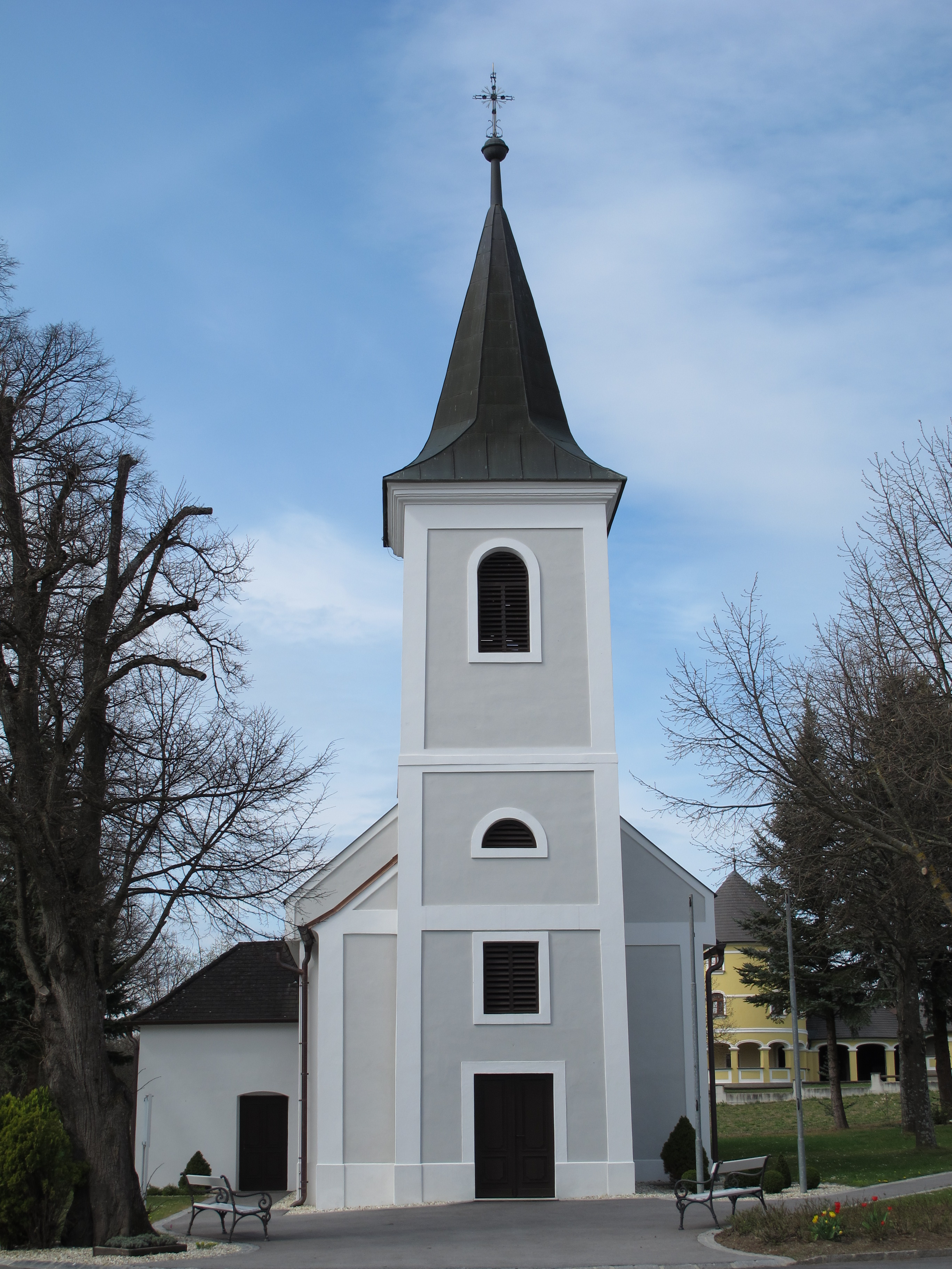 Kirche Zuberbach